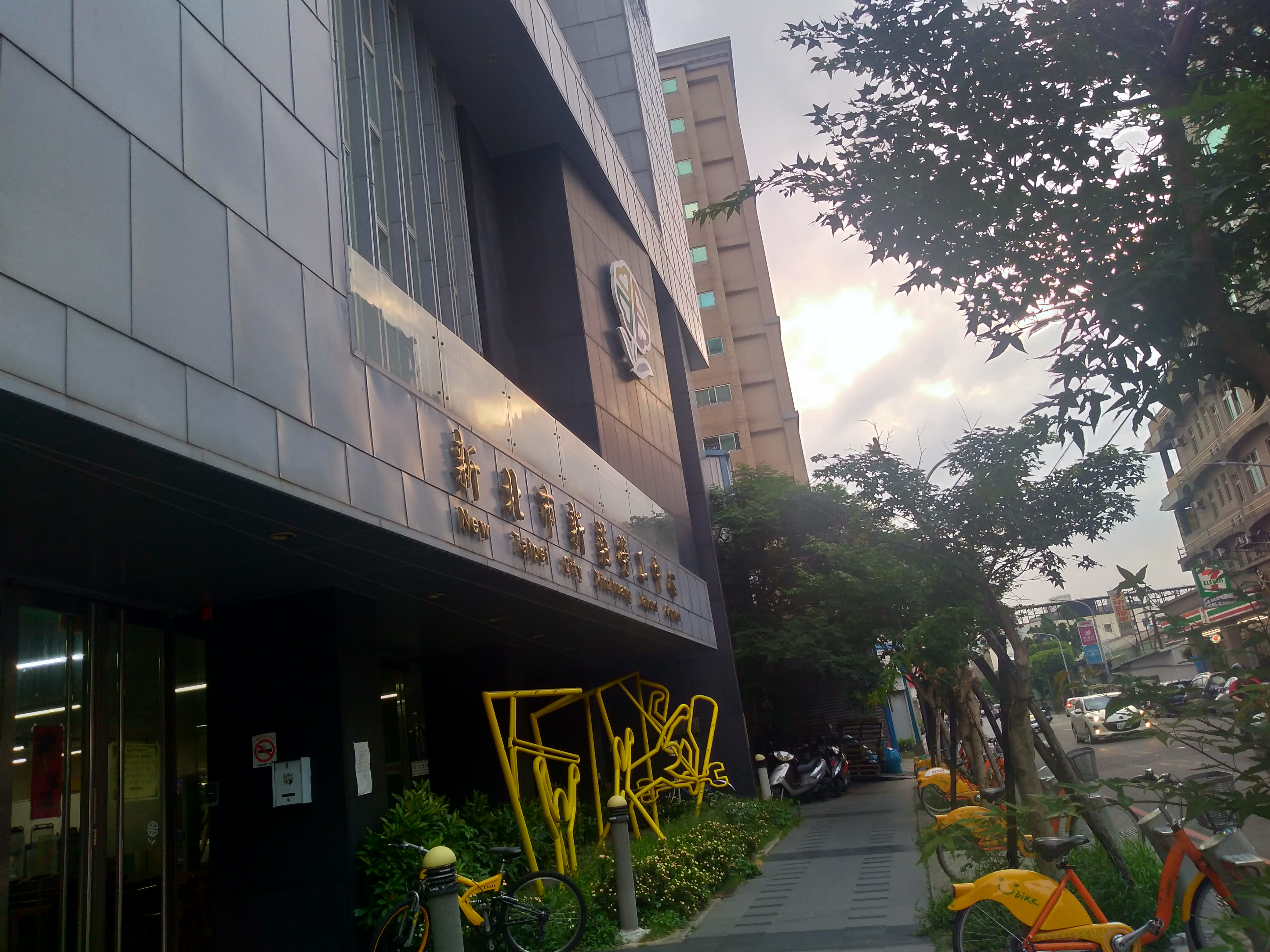 The labor center of xin jhuang city.